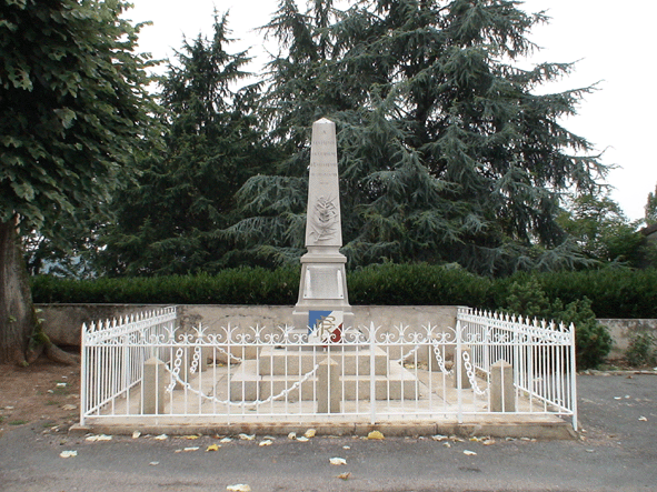 Essertenne war memorial, Saône-et-Loire, France